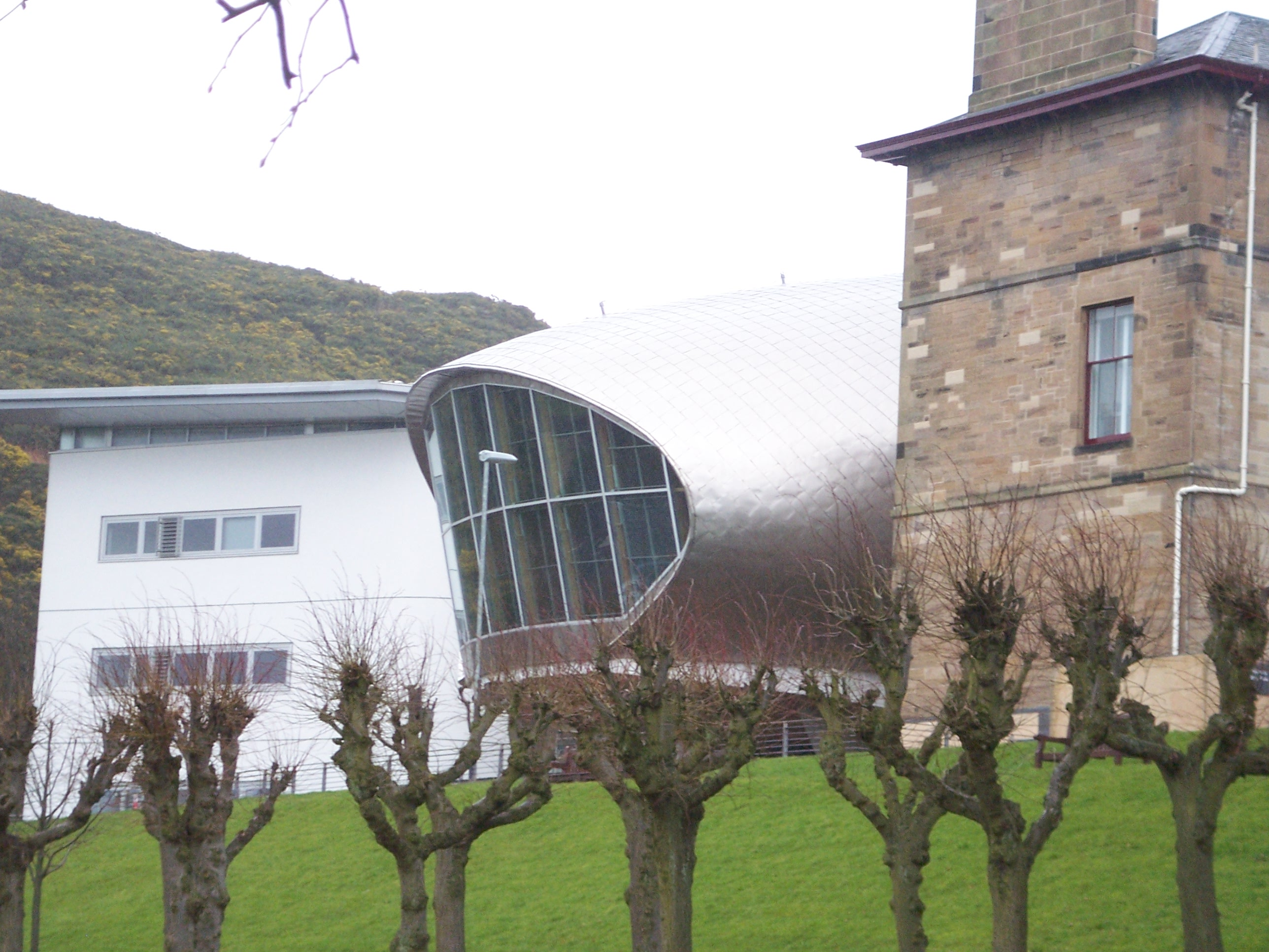 View of the old and both new building at the Napier University Craiglockhart campus, Edinburgh, Scotland.